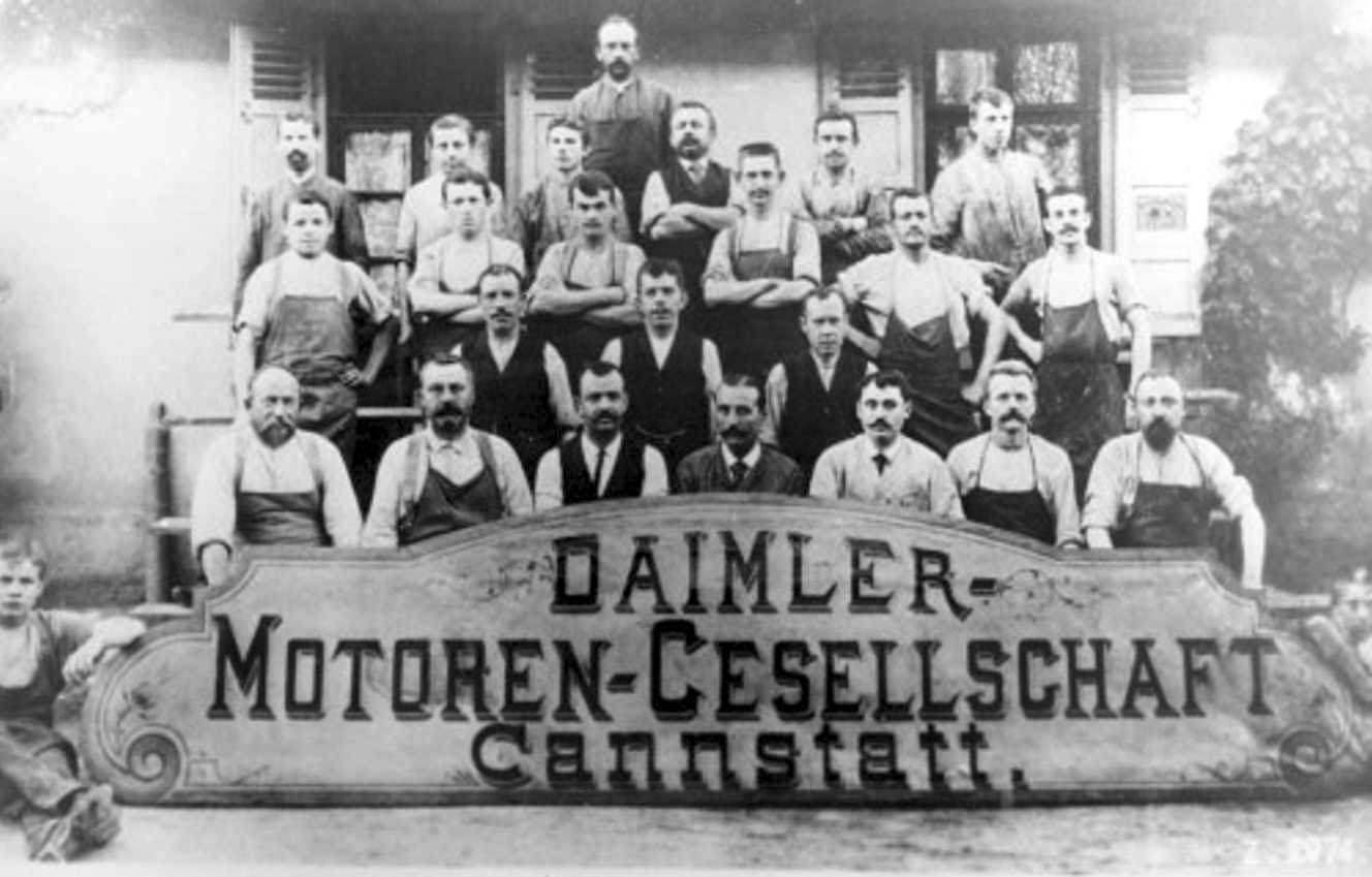 Workforce of Daimler-Motoren-Gesellschaft (DMG) in Cannstatt founded in 1890